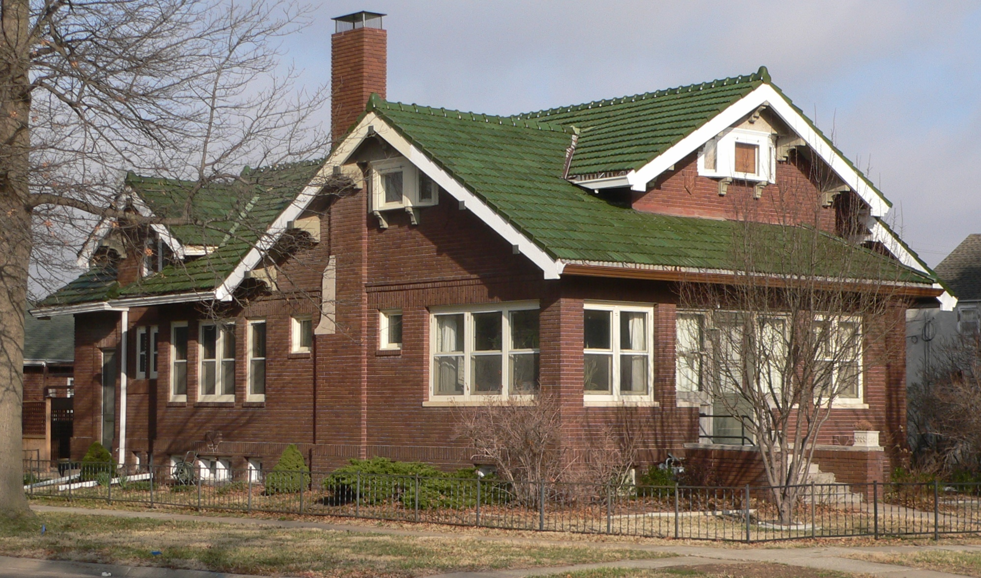 R. O. Stake house, located at 145 S. 28th Street in Lincoln, Nebraska; seen from the southeast.